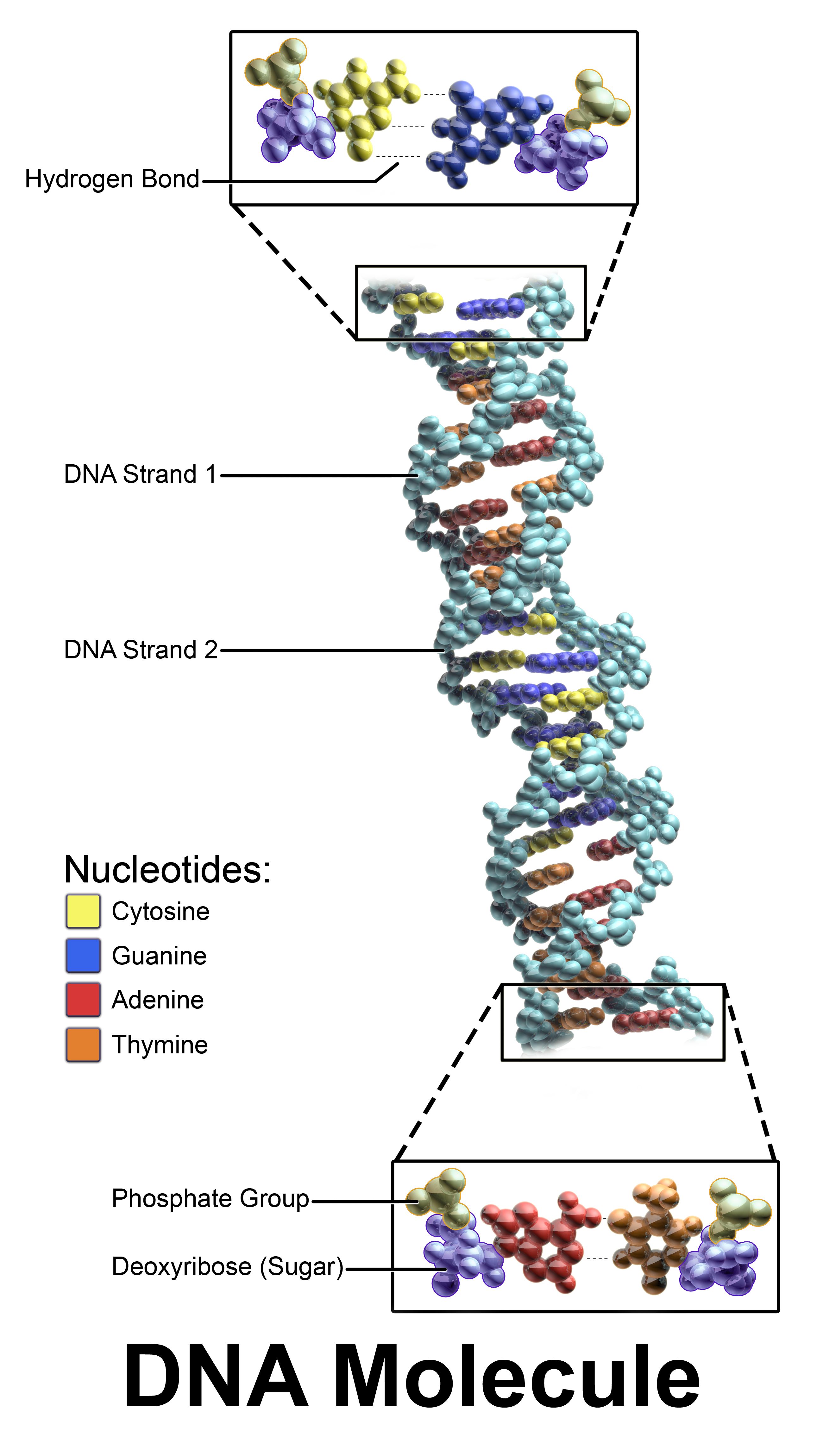 DNA Molecule with Base Pairs. See a full animation of this medical topic.